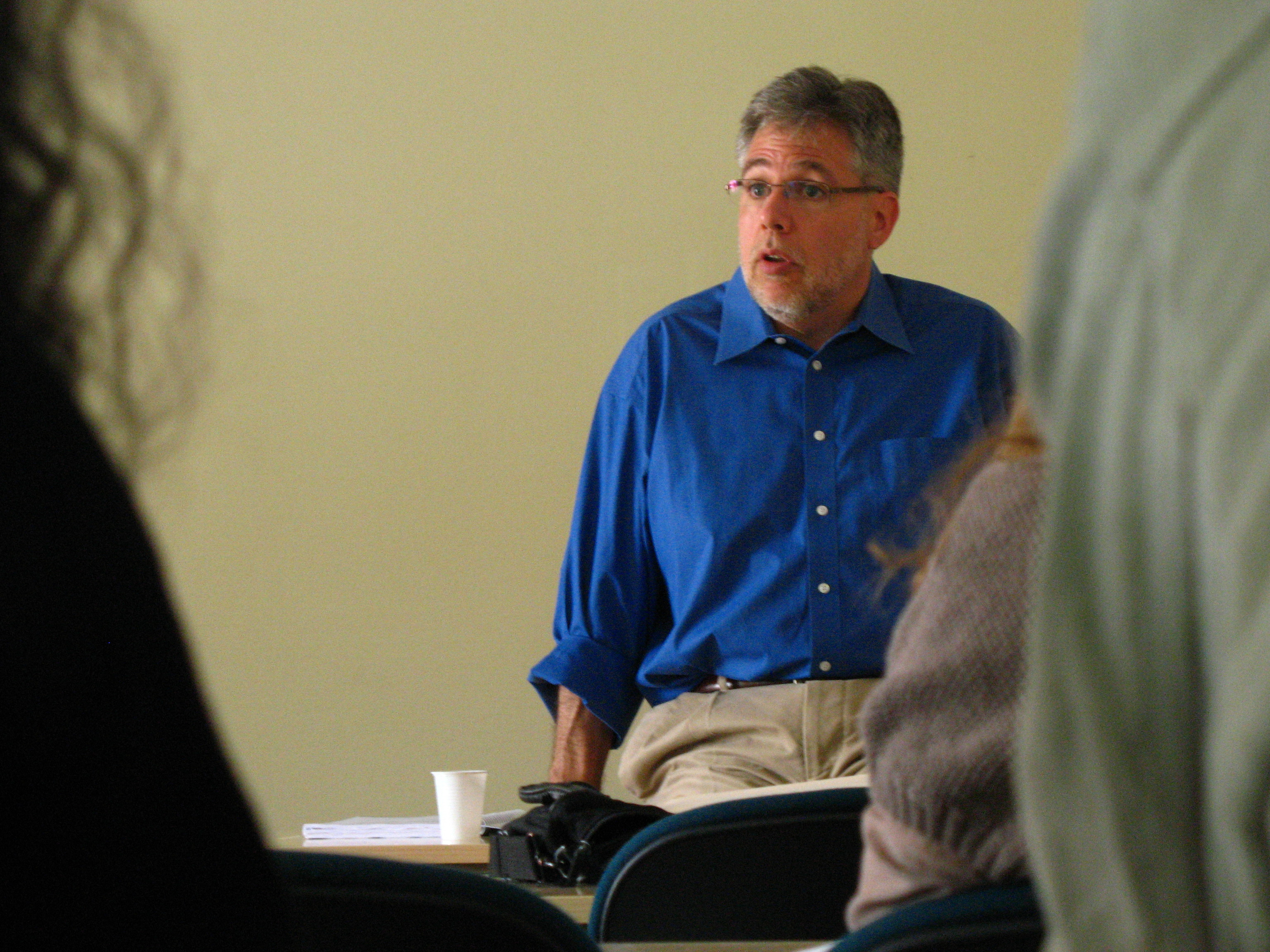 Russ Shafer-Landau giving a lecture on moral philosophy in 2009 in Tartu, Estonia